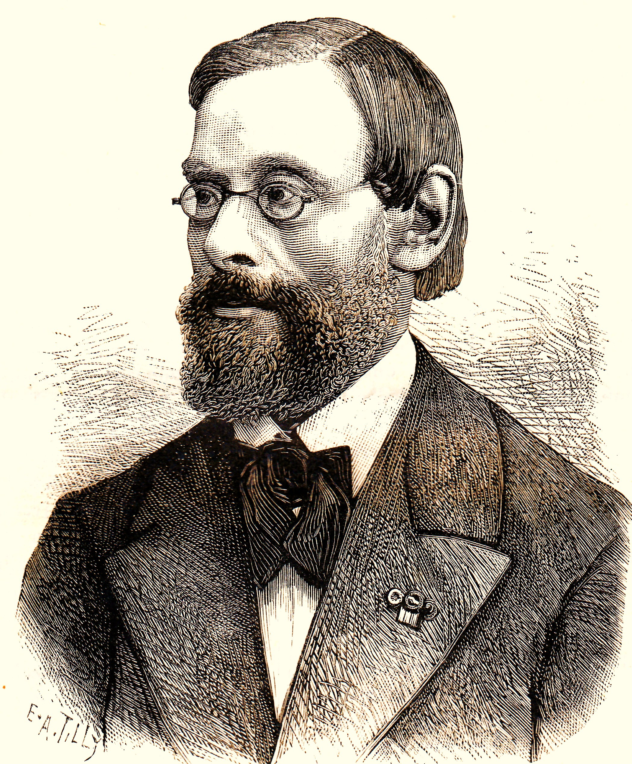 RPA Dozy